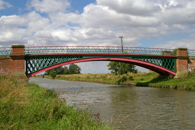 Hibaldstow Bridge. The plaque in the centre of the span reads "Erected by J.T.B.Porter & Co., Lincoln, 1889".